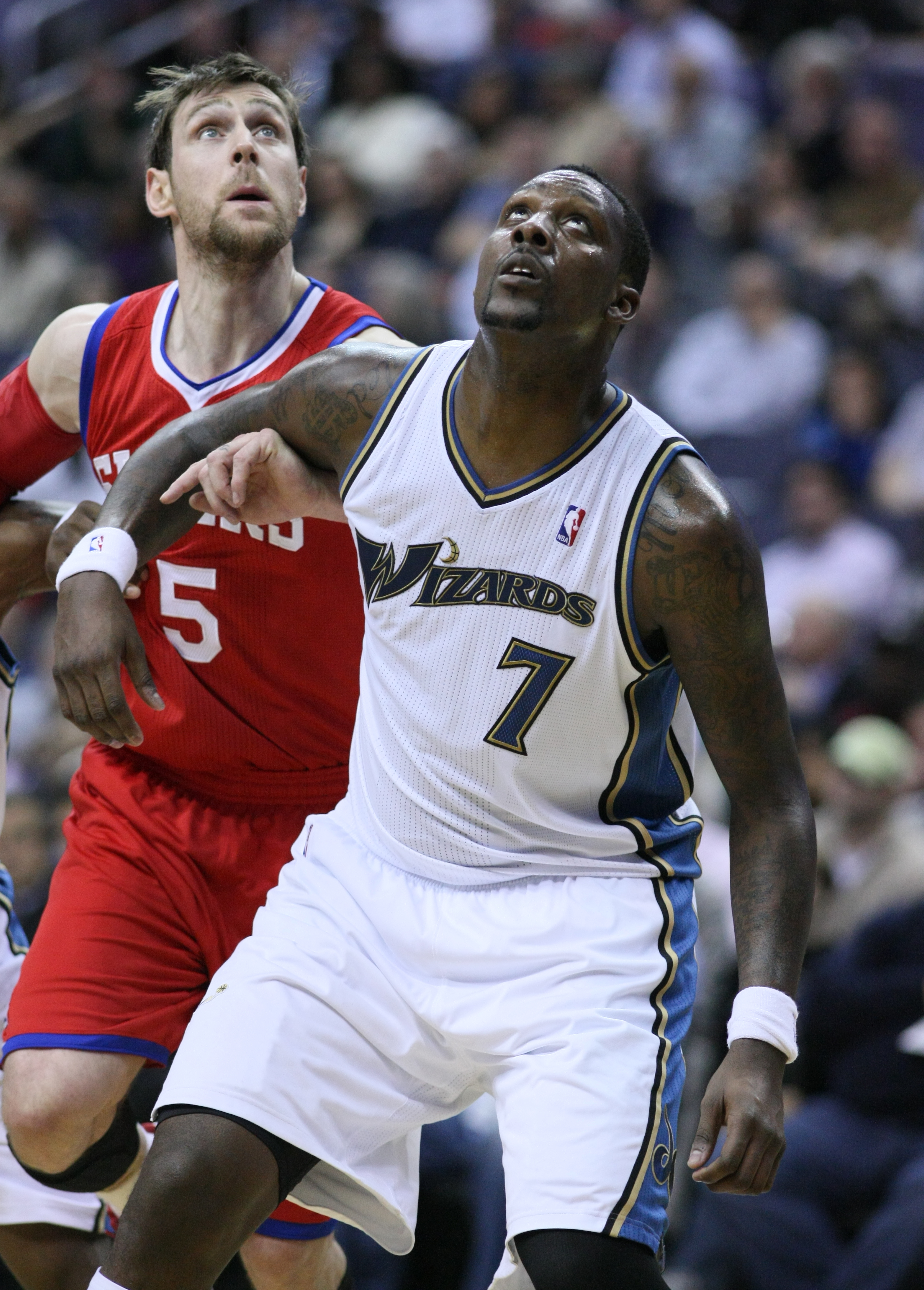 Washington Wizards v/s Philadelphia 76ers November 23, 2010